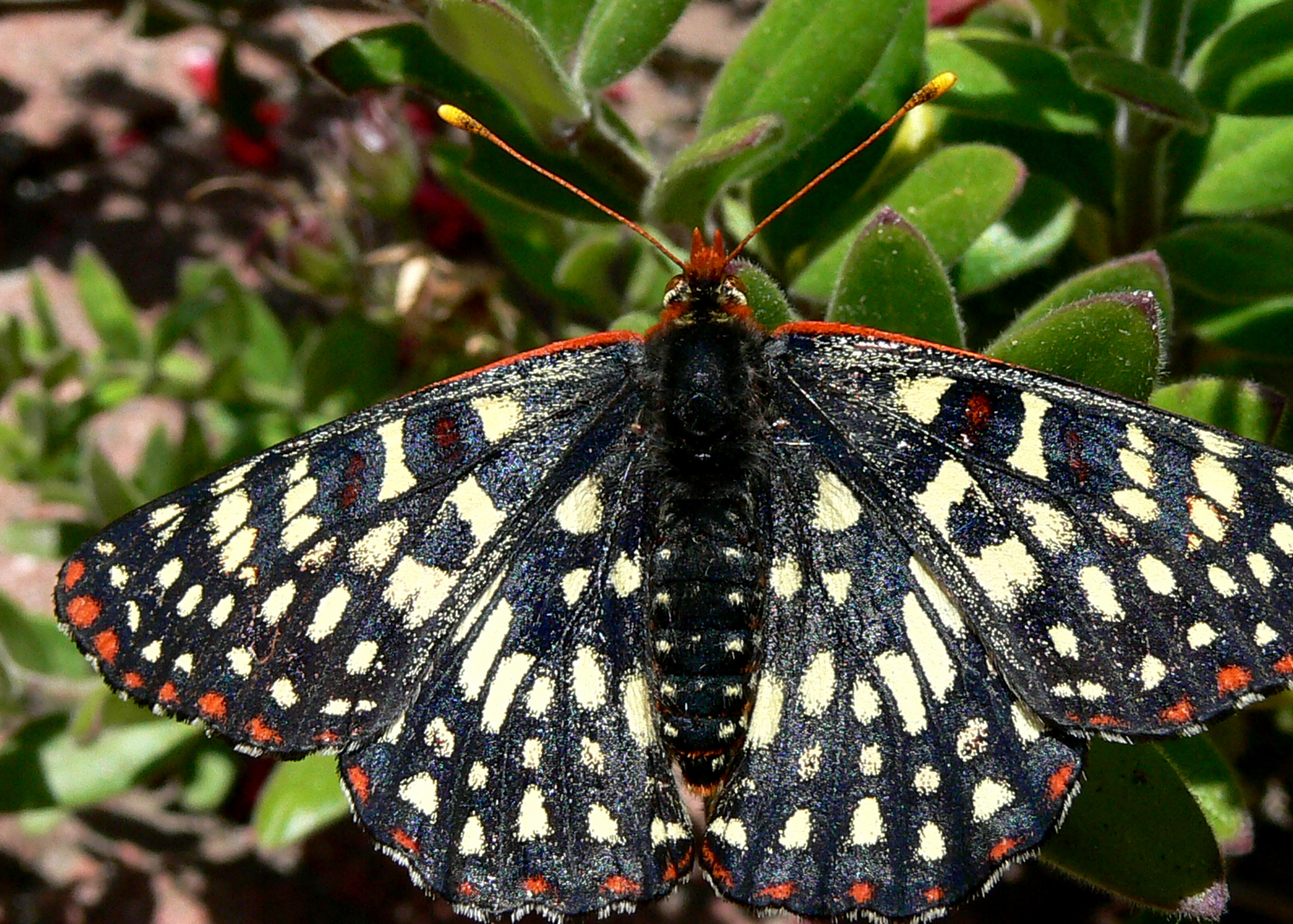 Seen in my yard in Los Osos, California